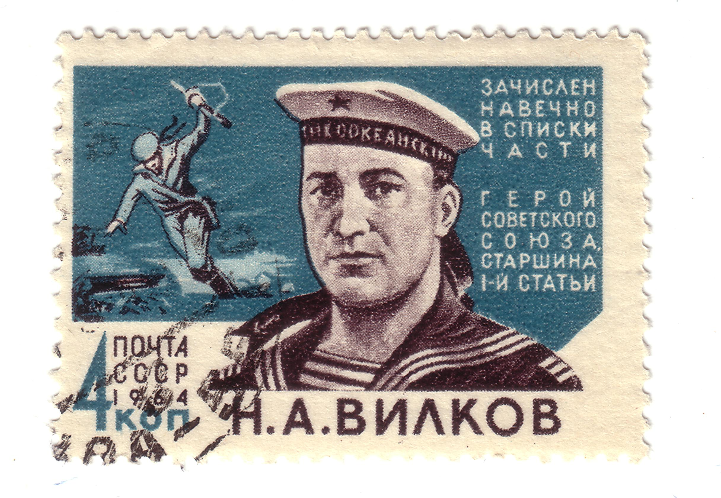 Postal stamp depicting the USSR S GSS Vilkova. N.A.